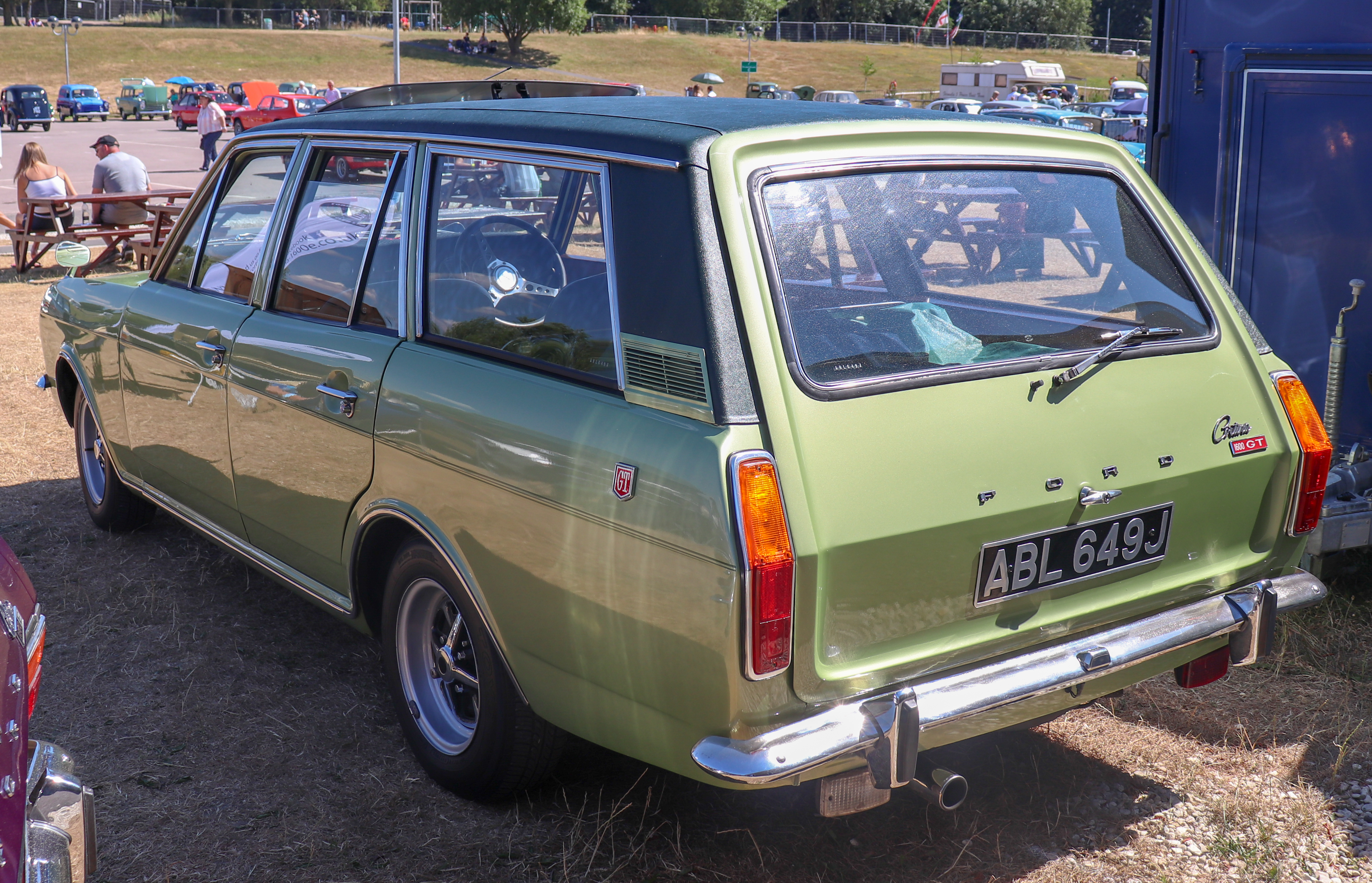 1970 Ford Cortina 1600 GT Mark II Estate Rear Taken at the British Motor Museum Old Ford Rally 2018, Gaydon